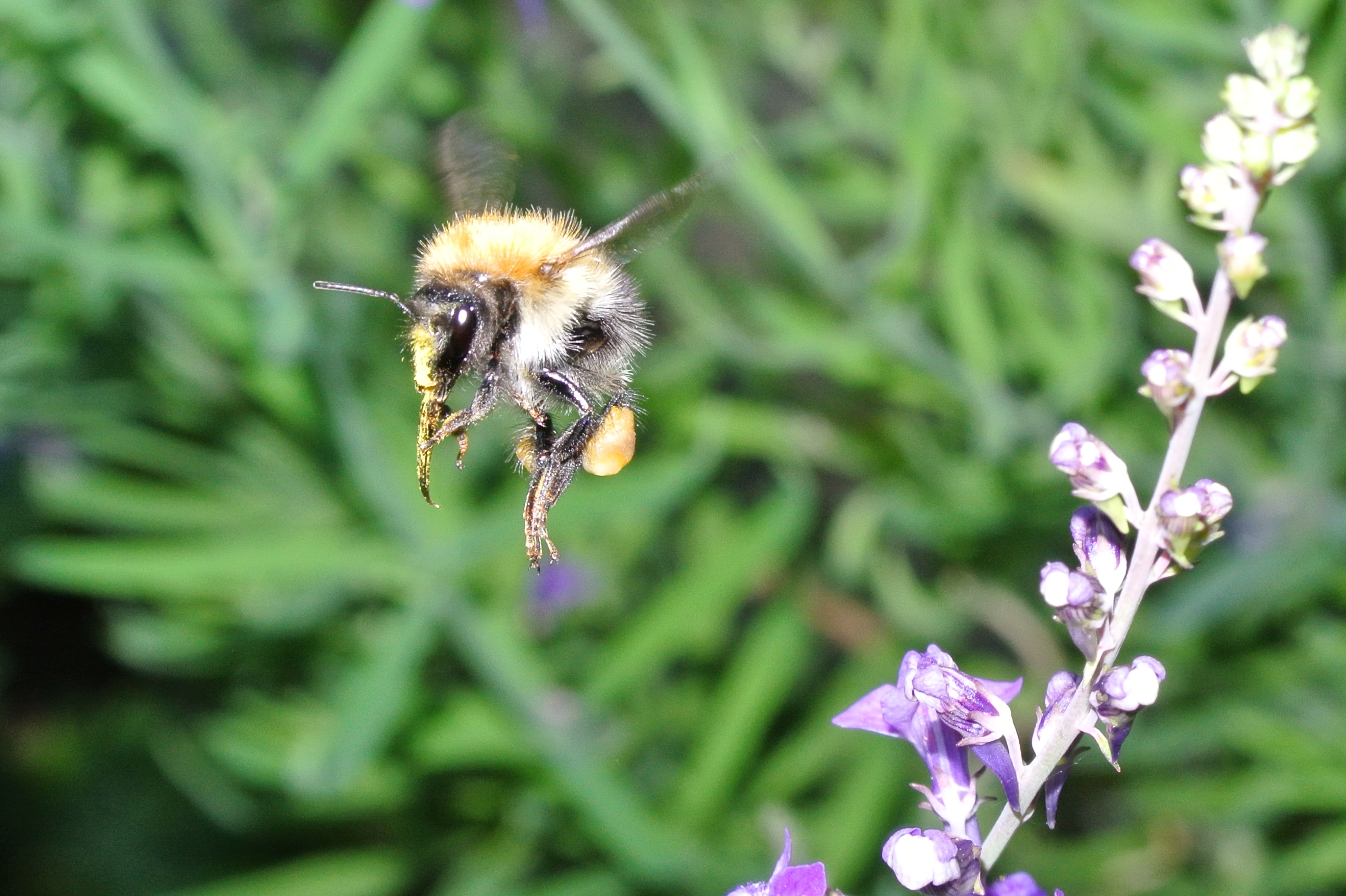 Bumble Bee in flight